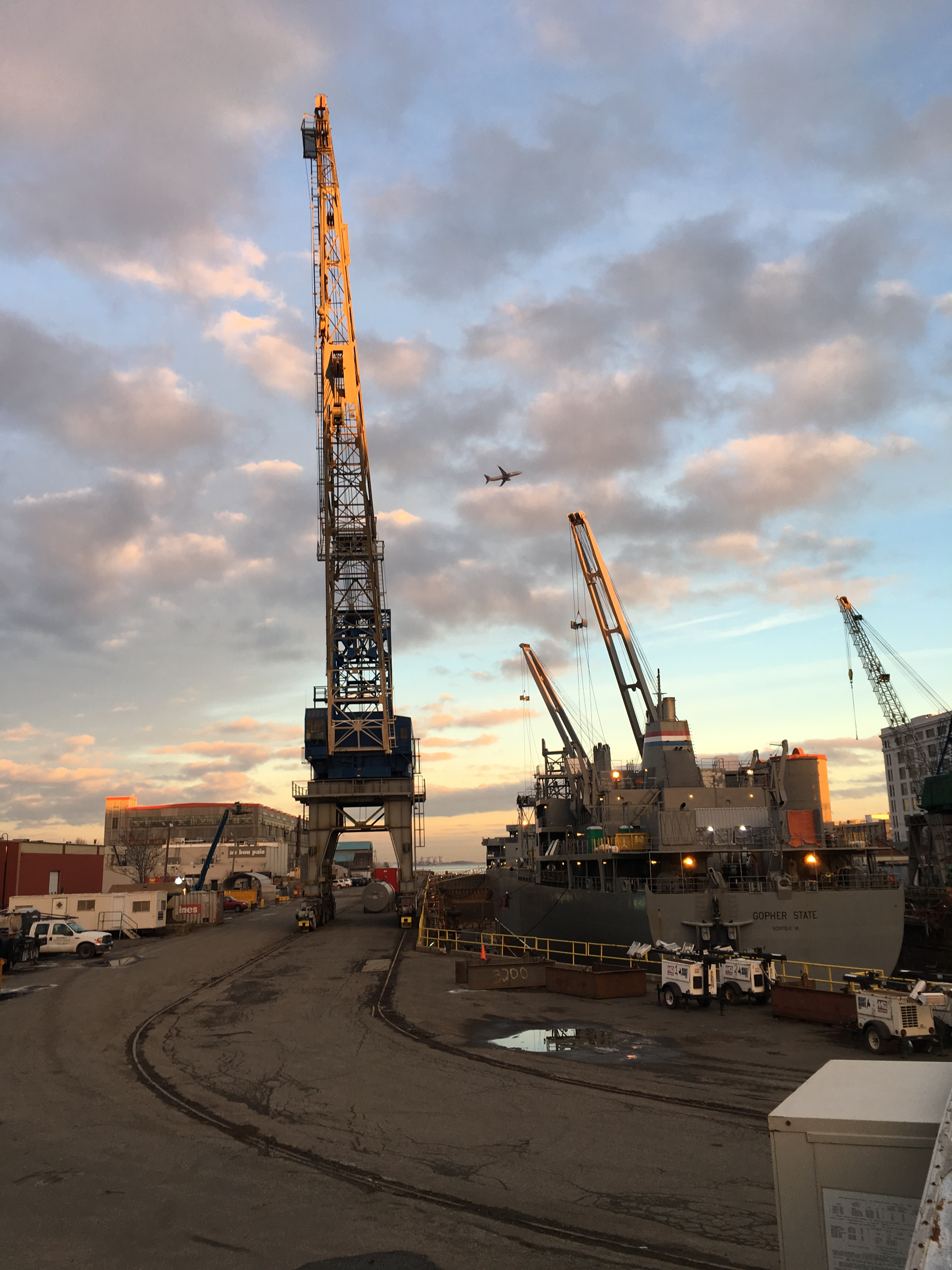 Crane ship SS Gopher State (T-ACS-4) in Boston's Dry Dock Number 3, at sunset.